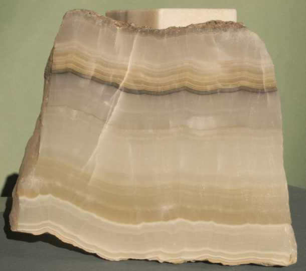 onyxmarble, Algeria